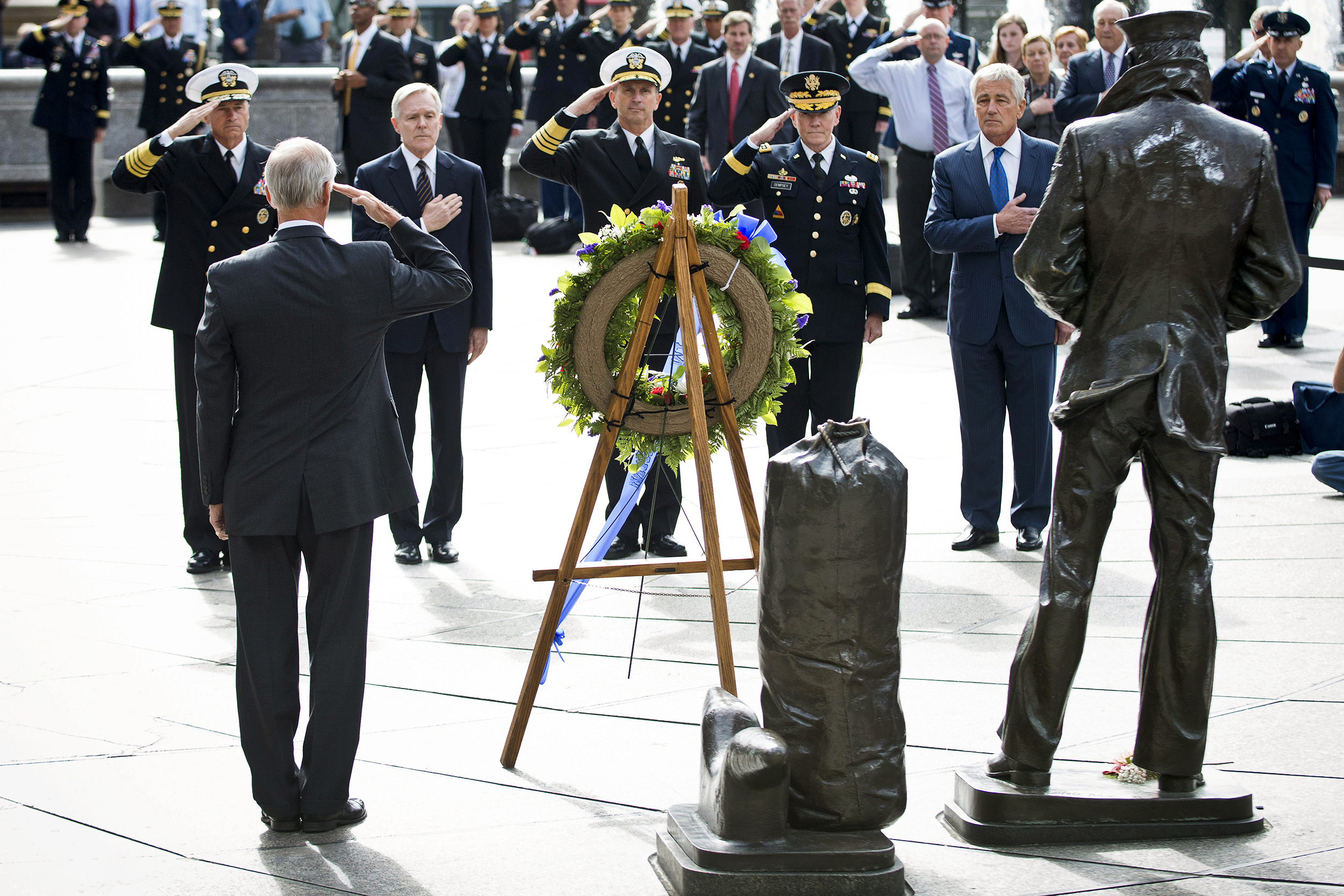 United States Secretary of Defense Chuck Hagel (left); General Martin E. Dempsey, U.S. Army, chairman of the Joint Chiefs of Staff (second from left); Admiral Jonathan Greenhart, U.S. Navy, chief of naval operations (middle); United States Secretary of the Navy Ray Mabus (second from right); and Admiral James A. Winnefeld, Jr., U.S. Navy, vice chairman of the Joint Chiefs of Staff (right), honor the 12 victims of the Washington Navy Yard shooting during a wreath-laying ceremony at the U.S. Navy Memorial on Pennsylvania Avenue NW in Washington, D.C., on September 17, 2013.